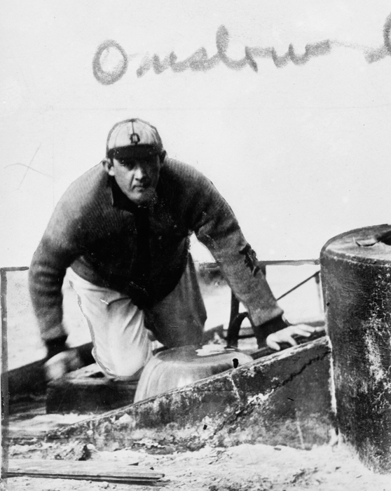 Jack Onslow of the Detroit Tigers